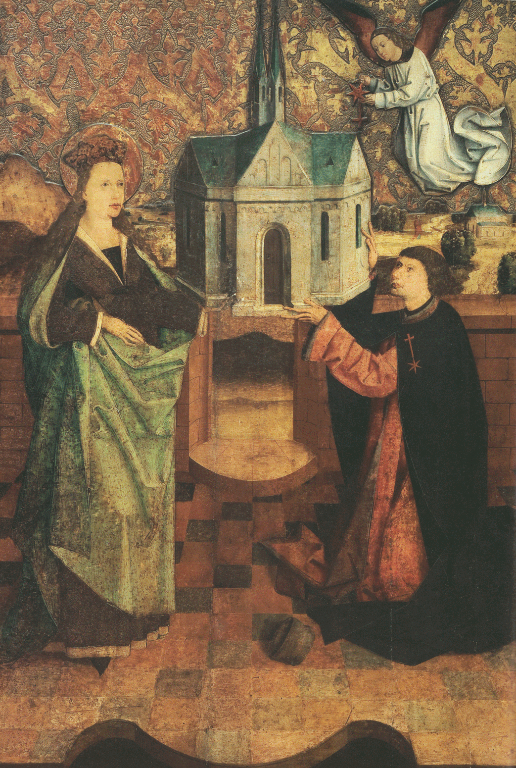 Reproduction of catalogue